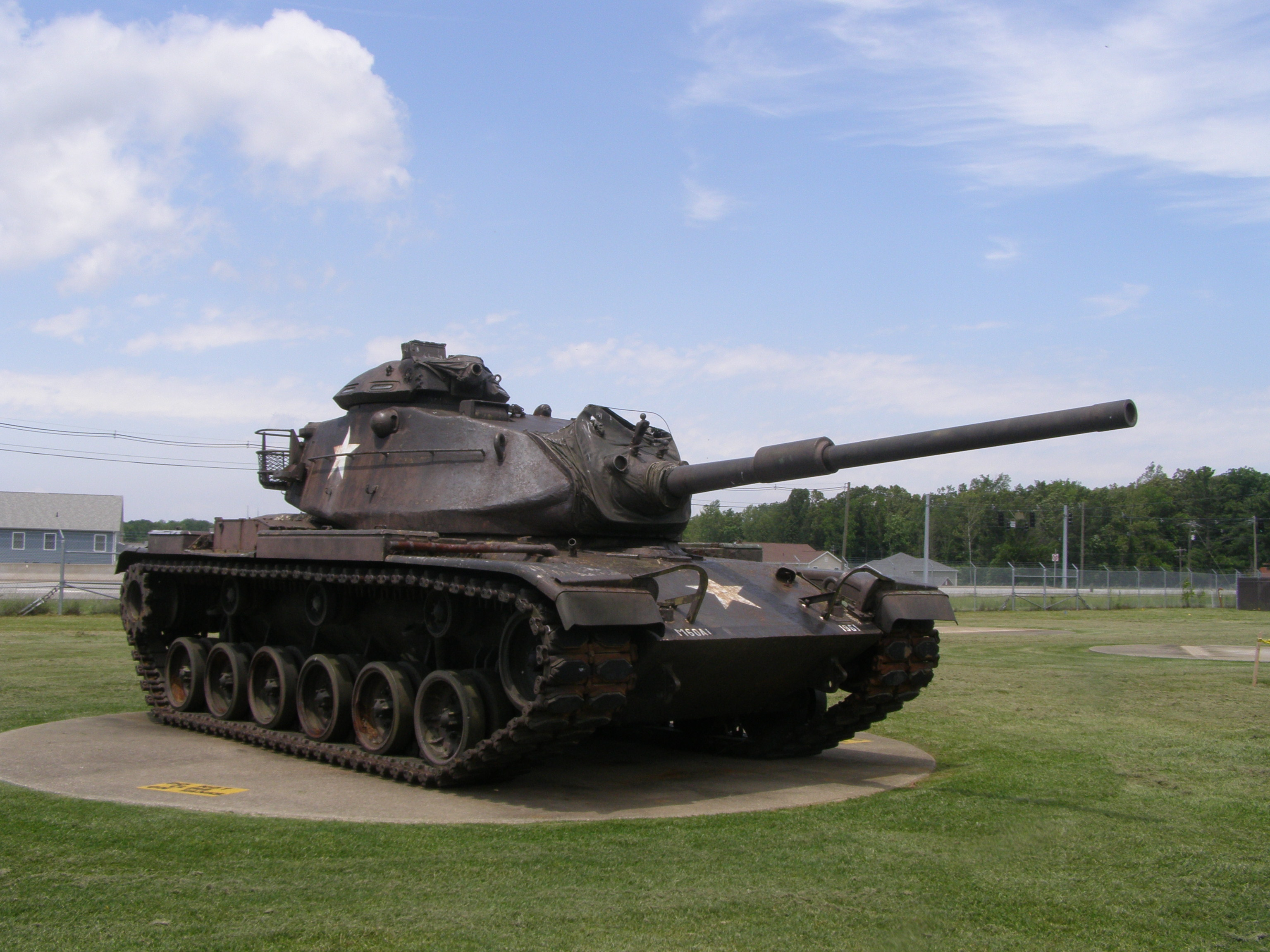 M60 Patton Tank at the General George Patton Museum and Center of Leadership, Fort Knox, Kentucky.